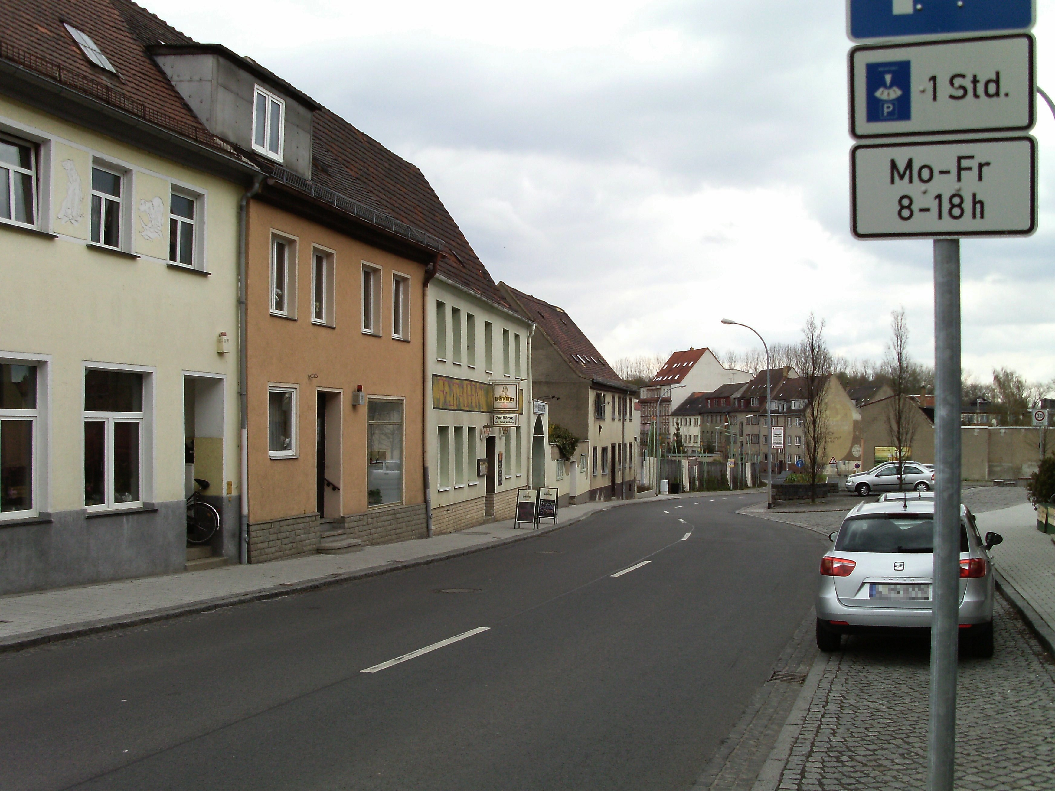 Leipziger Strasse in Schkeuditz (Norsachsen district, Saxony)